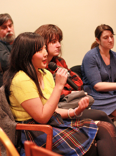 Audience members participating at Karen Finley event at the Kelly Writers House